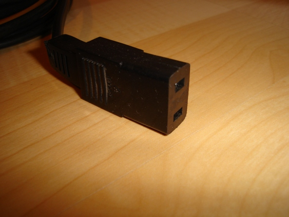 Photograph of a C9 IEC power connector.